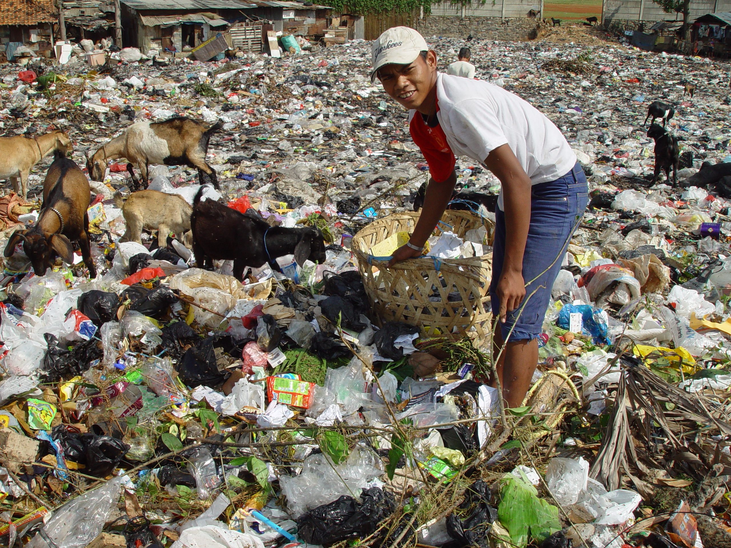 Slum life, Jakarta Indonesia.